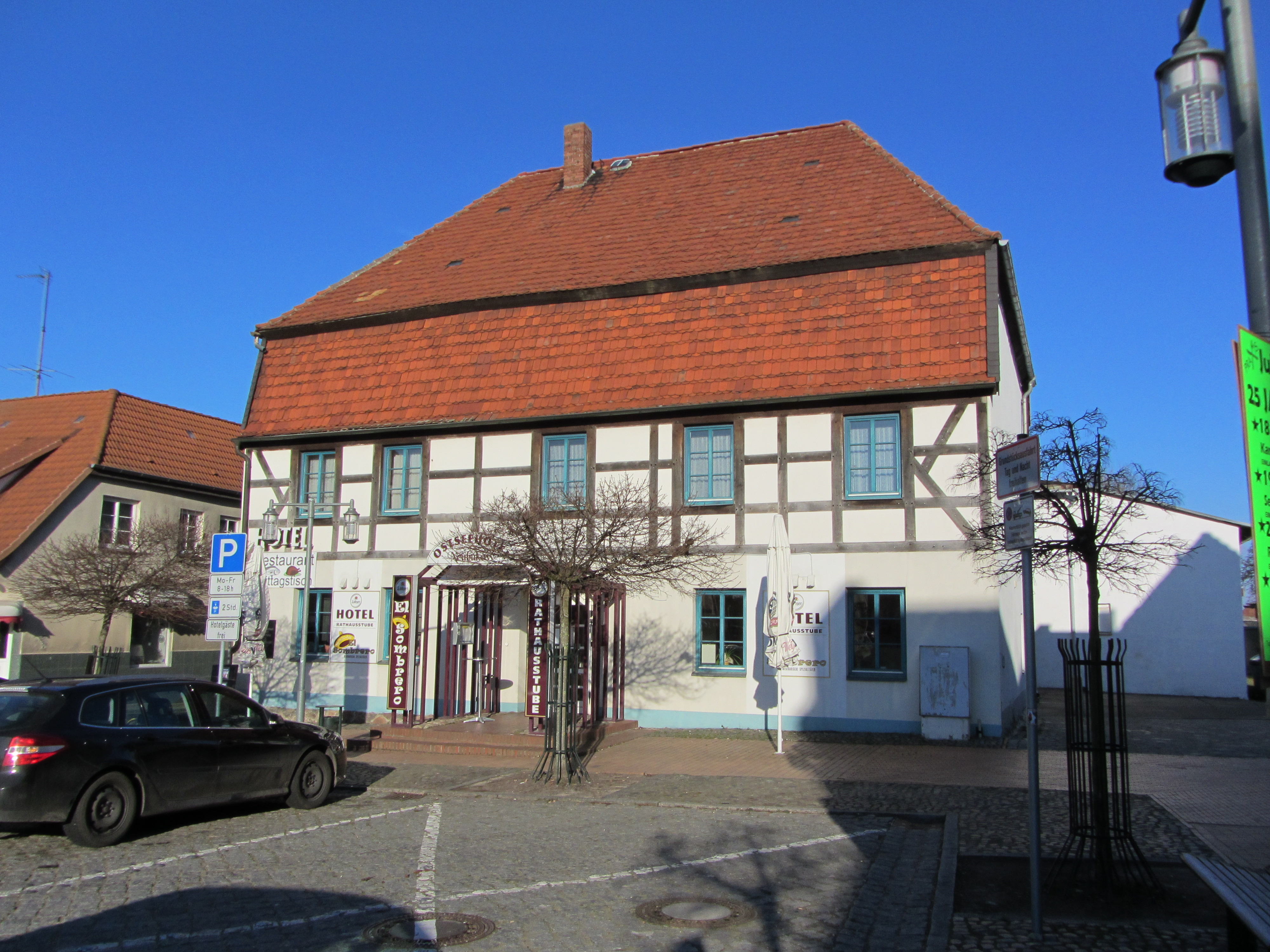 Buildings at market place in Neubukow, district Rostock, Mecklenburg-Vorpommern, Germany